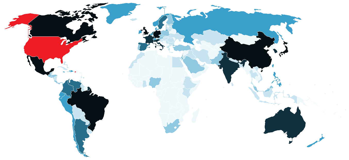 Number of non-immigrant admissions for tourists and business purposes into the United States in fiscal year 2015 United States Over 2 million admissions Over 1 million admissions Over 500 thousand admissions Over 250 thousand admissions Over 100 thousand admissions Over 15 thousand admissions Under 15 thousand admissions